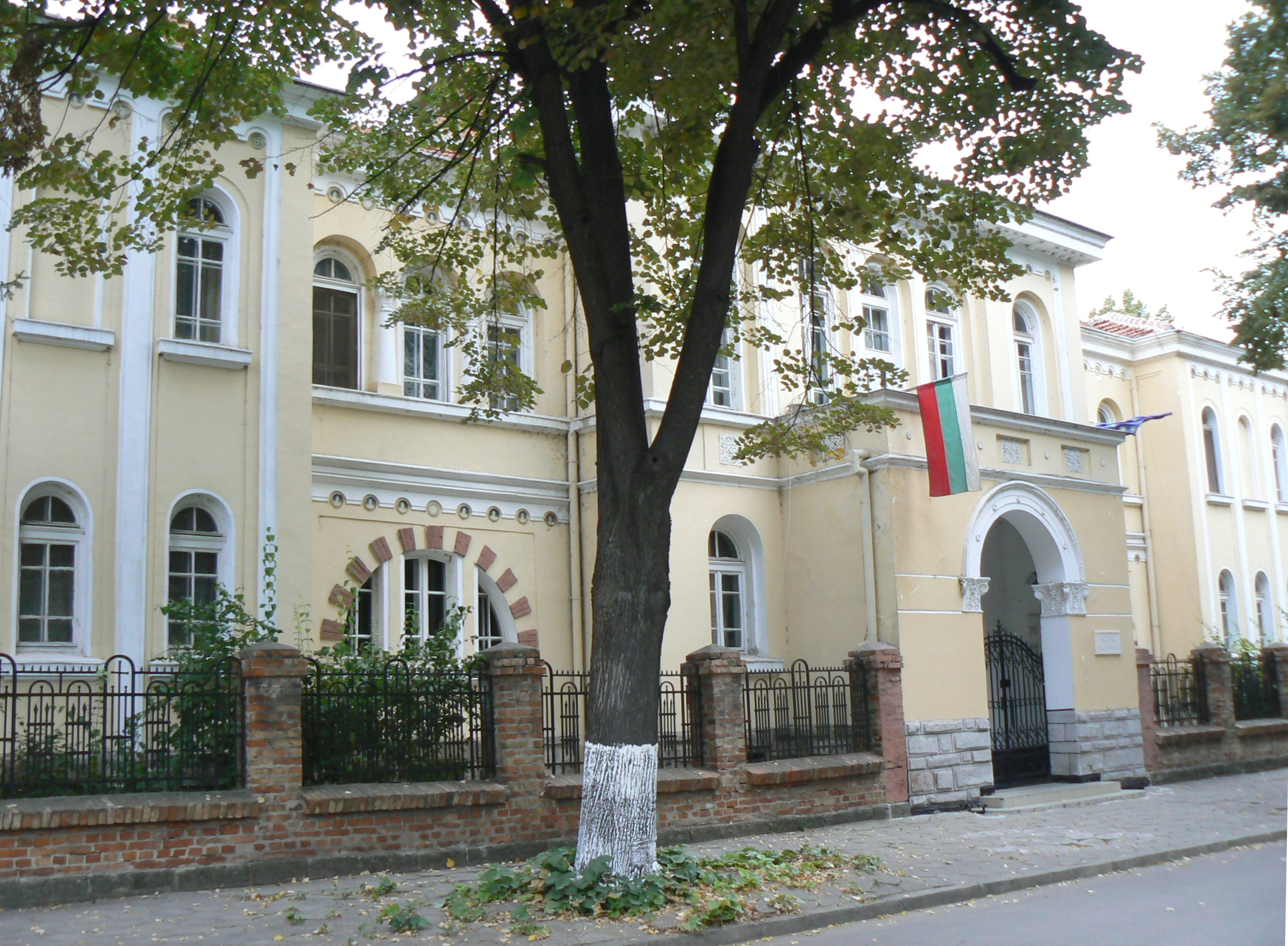 The building of Vidin Diocese. Vidin, Bulgaria